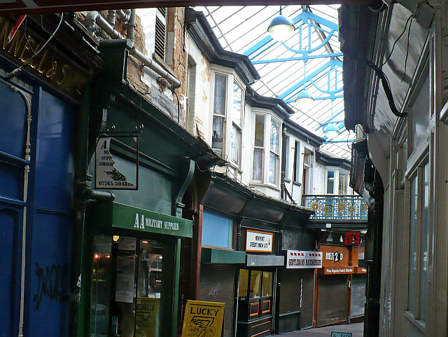 Market Arcade (1) Built in 1900, it is now in a rather run down condition. Note the bridge joining either side of the upper level.